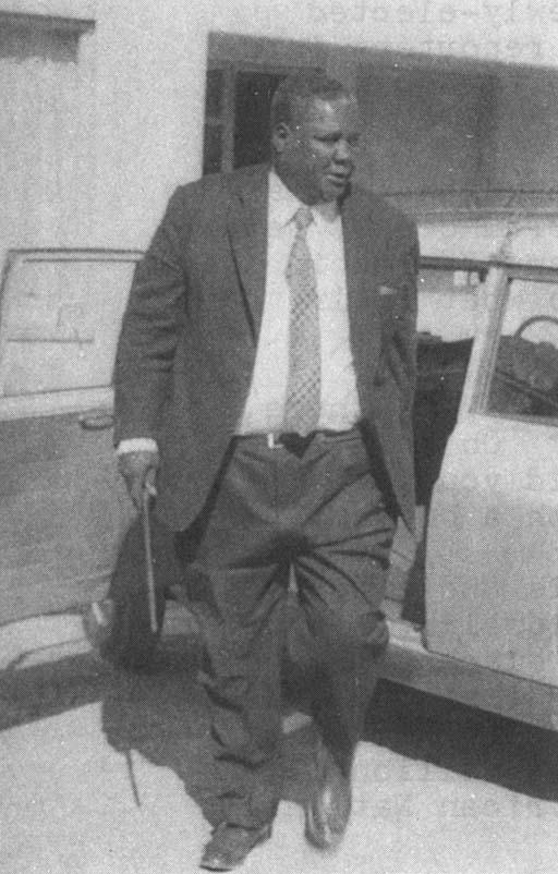 Photo of Joshua Nkomo